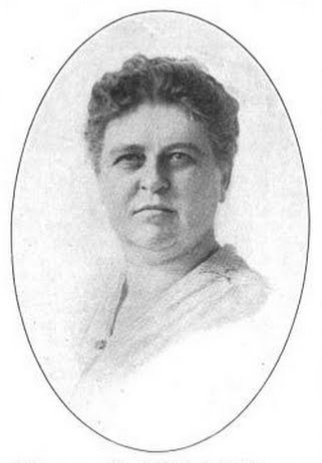 "The Woman Citizen" Georgia Emery, prominent in Michigan Women's Association of Commerce (1867-1931)